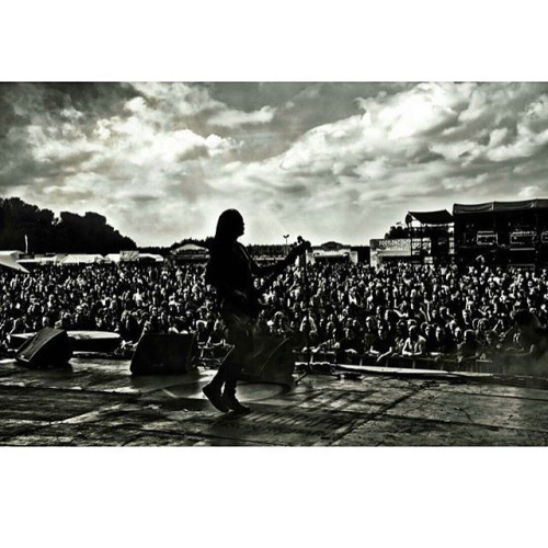 Mira Slama live at Bloodstock Open Air